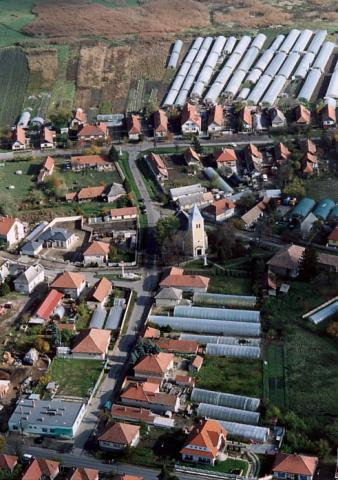 Szentlőrinckáta, Hungary, aerialphotography